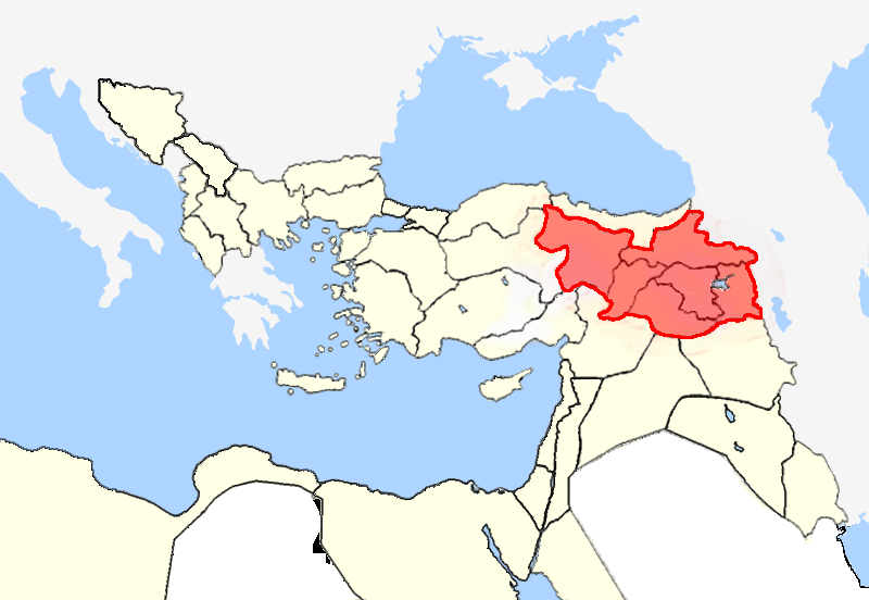 The Six vilayets of the Ottoman Empire, early 20th century.